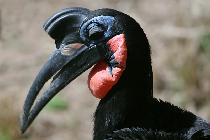 Abyssinian Ground-hornbill or Northern Ground-hornbill (Bucorvus abyssinicus). Head and neck of a male at San Diego Zoo, USA.